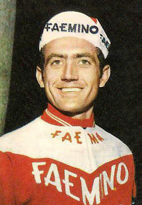 CAMPIONI DELLO SPORT PANINI 1970 1971 ITALO ZILIOLI CICLISMO